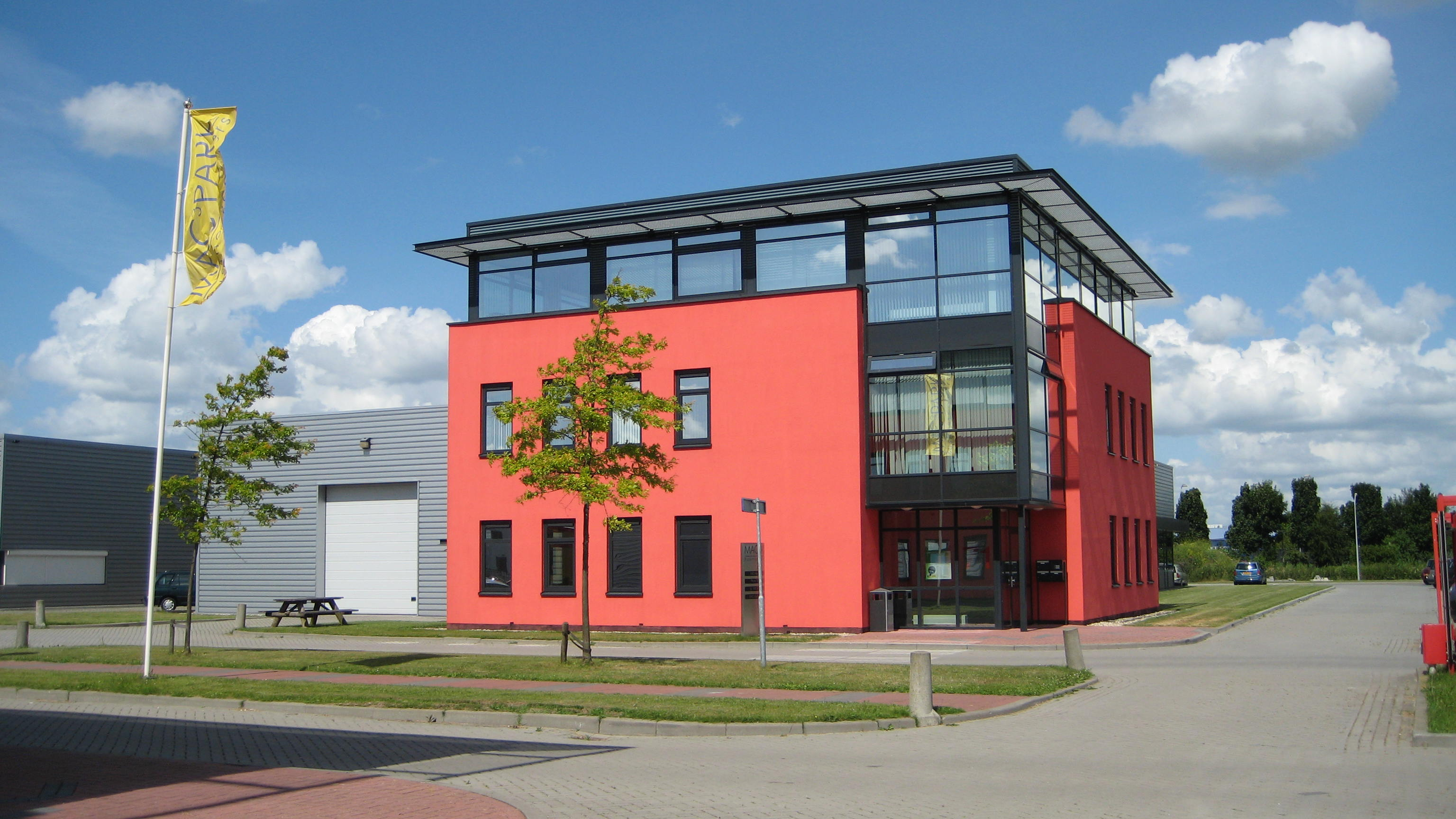 office of educational institution 'Wereldschool' and other IVIO departments